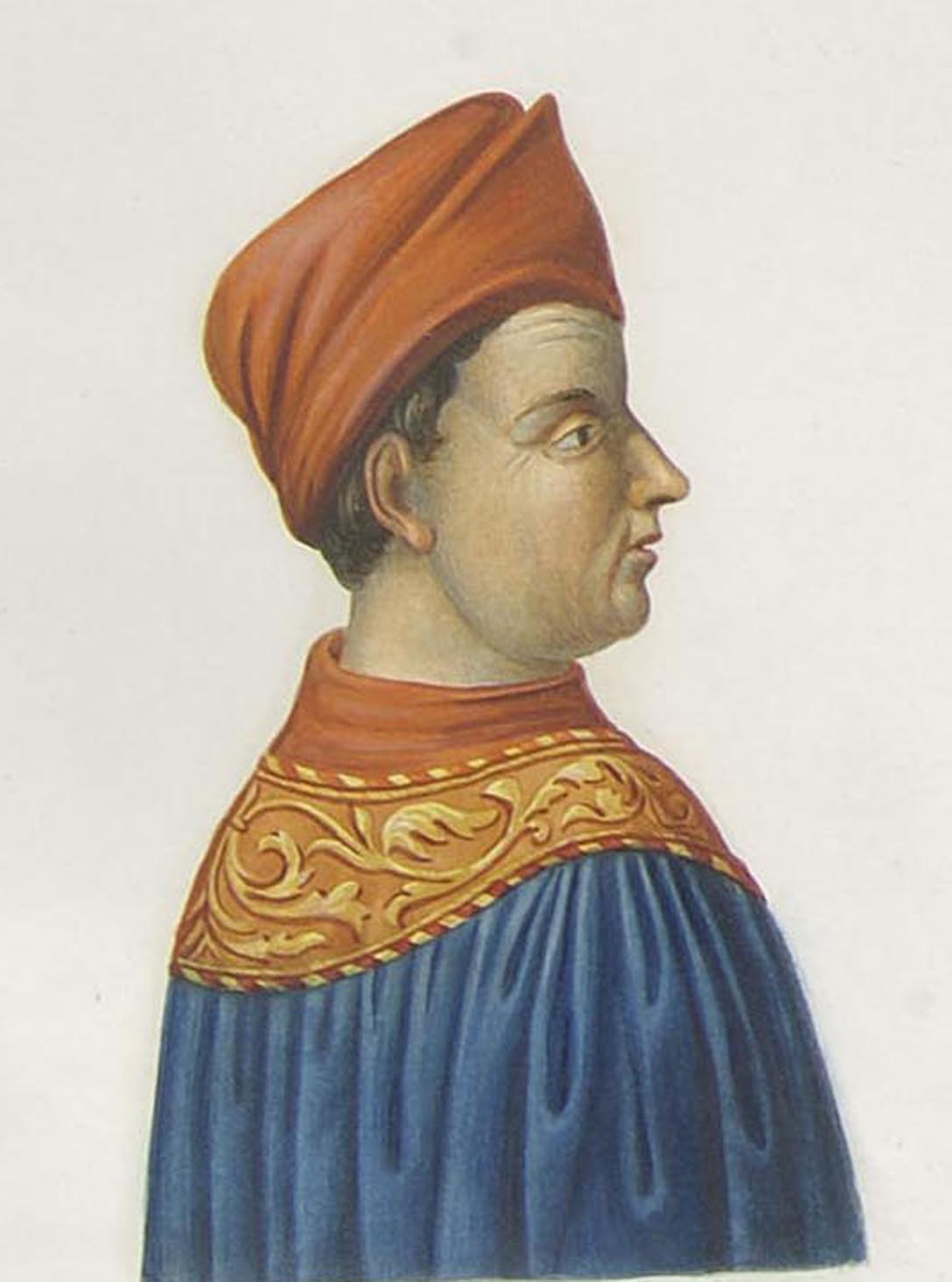 Giangaleazzo II Manfredi